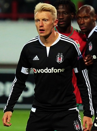 Andreas Beck